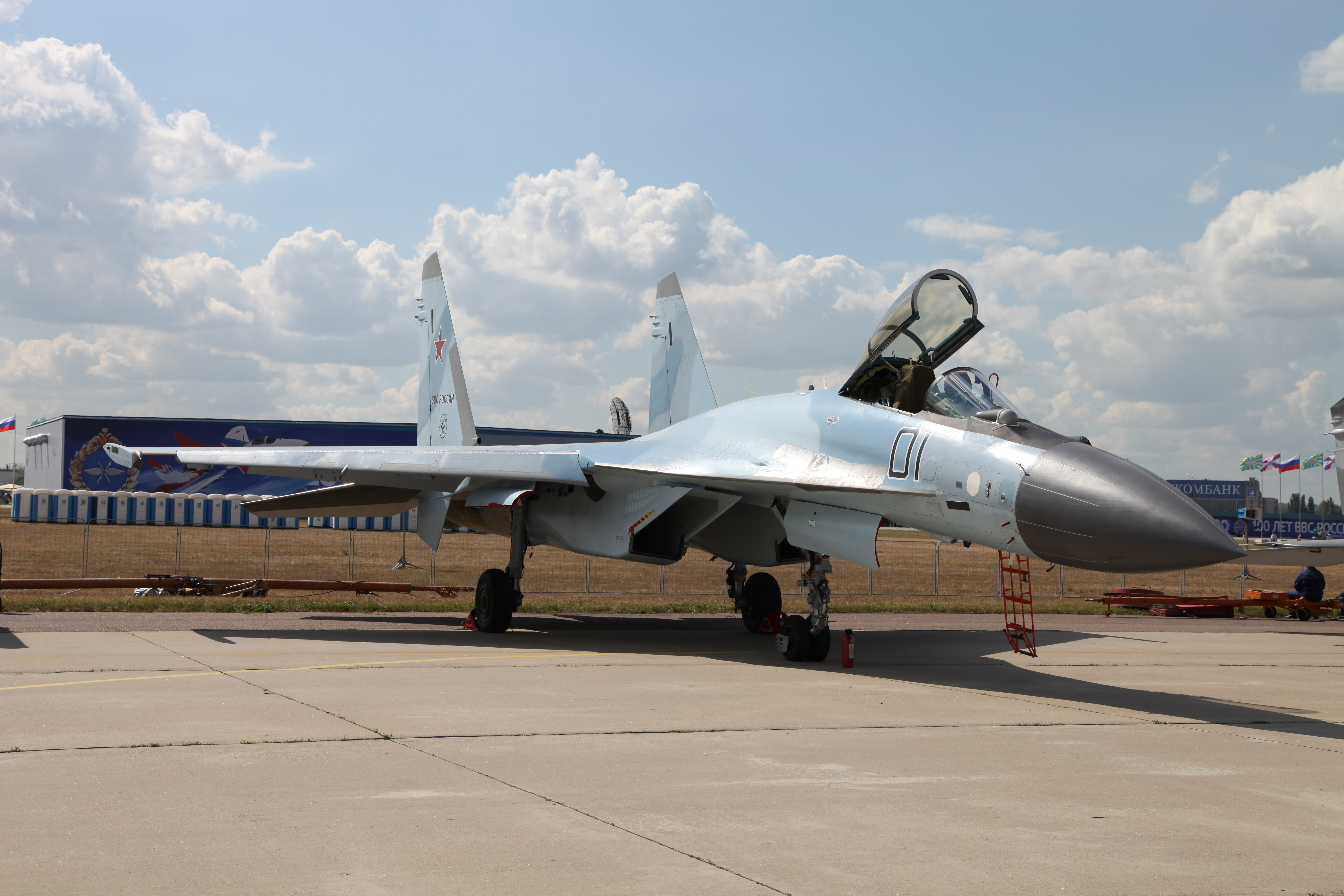 Aircraft at the Celebration of the 100th anniversary of Russian Air Force.